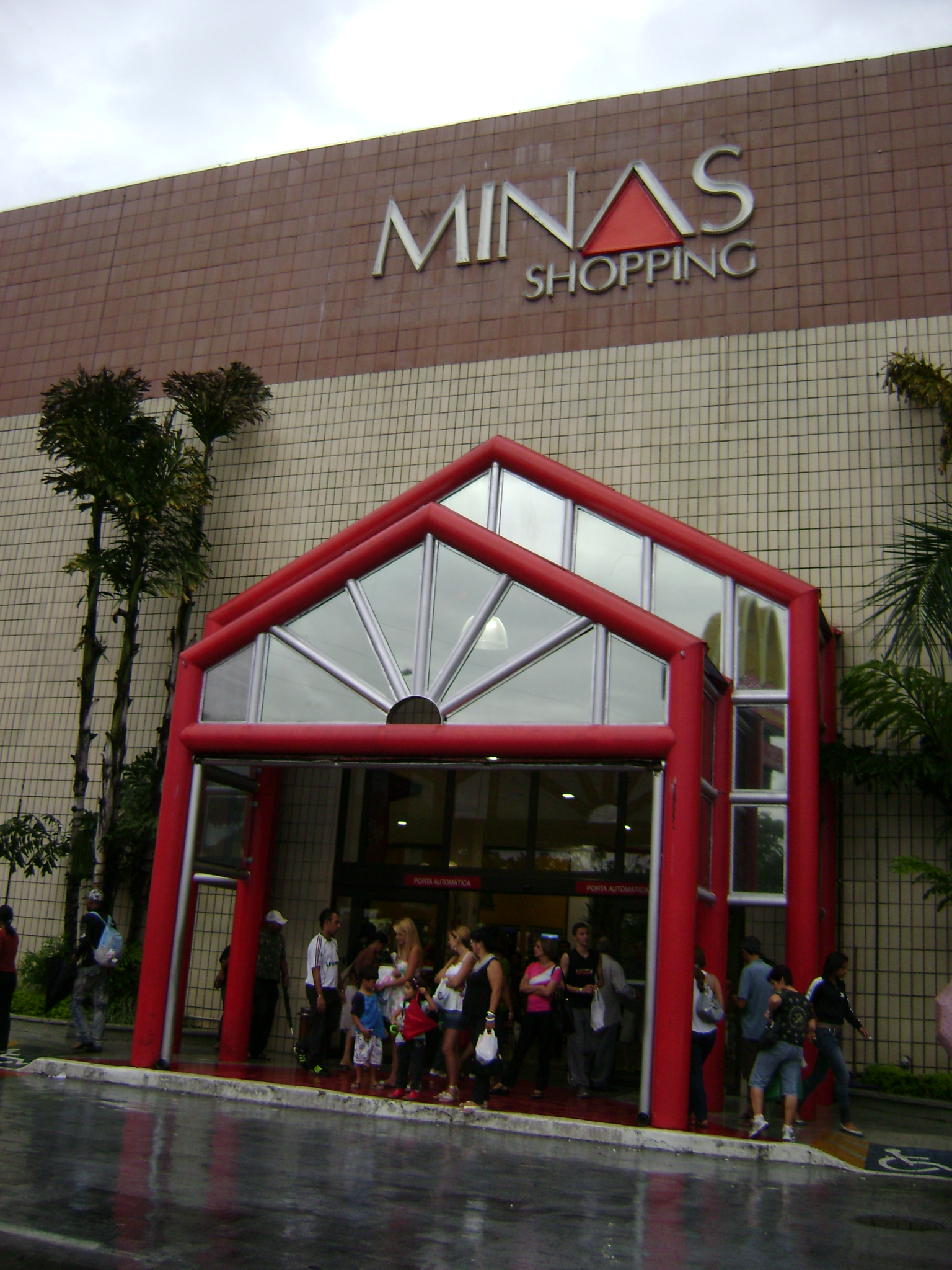 Entrada do Minas Shopping